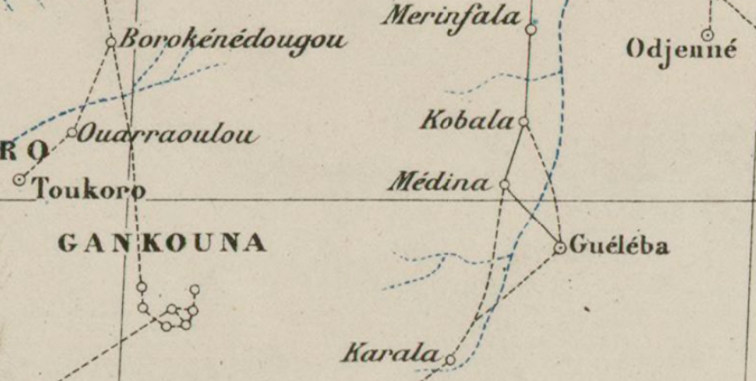 Map of Guéléba